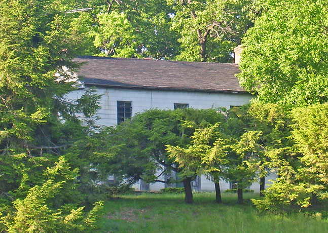 Photographed by Daniel Case 2007-05-24 from across the Metro-North tracks.